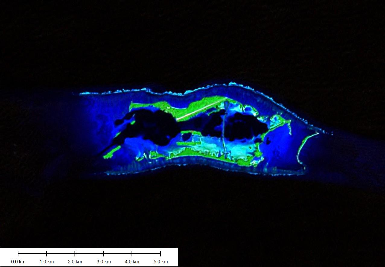 Island map created using Landsat ETM+ Imagery (N-03-05_2000) and Marplot Mapping Software